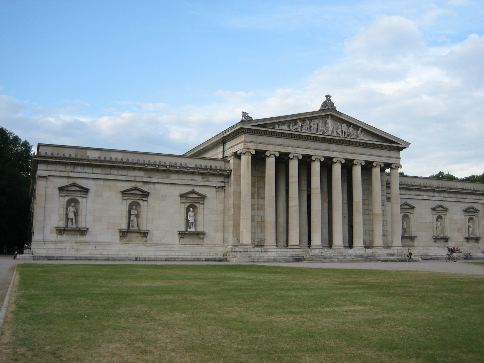 The Glyptothek is a museum in Munich, Germany, which was commissioned by the Bavarian King Ludwig I to house his collection of Greek and Roman sculptures (hence Glypto-, from the Greek root glyphein, to carve). It was designed by Leo von Klenze in the Neoclassical style, and built from 1816 to 1830.